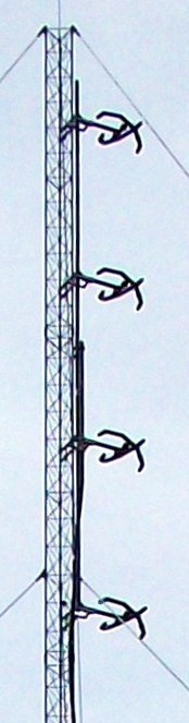 Crossed-dipole antennas on Provo radio station KHTB-FM's transmitter on Lake Mountain, Utah. It broadcasts at a frequency of 94.9 MHz with a power of 48 kW. These crossed-dipole antennas consist of two semicircular dipole elements at an angle. They radiate circularly polarized (Cpol) radio waves in an omnidirectional radiation pattern. Four "bays" are stacked vertically to increase the horizontal gain, reducing the amount of energy radiated into the sky or down toward the ground and wasted. Alterations to original image: cropped out rest of tower